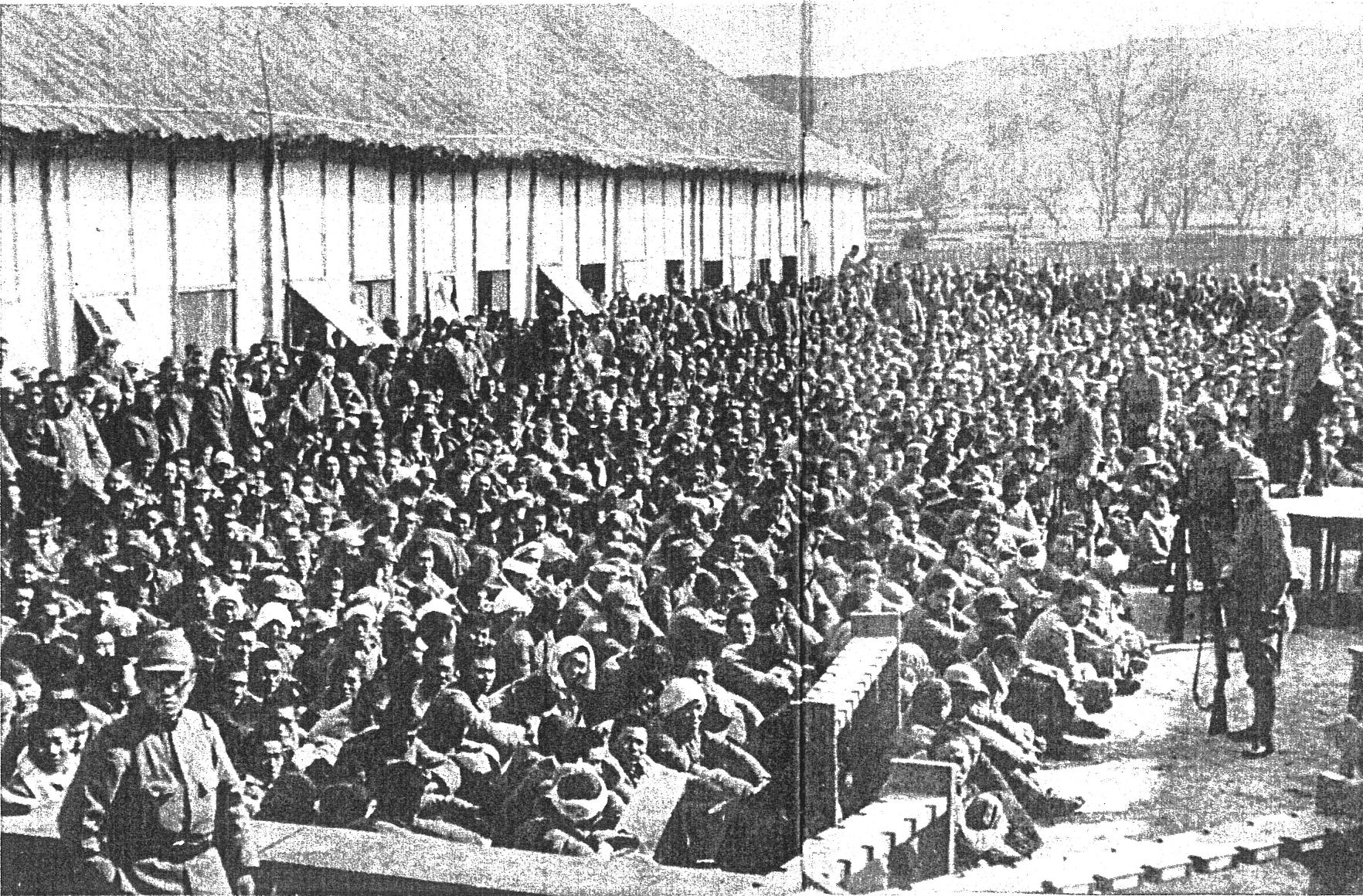 A correspondent for Asahi Newspaper reported that on December 13 and 14, 1937, the Morozumi Unit (the 65th Infantry Regiment of the Yamada Detachment in the 13th Division of the Imperial Japanese Army) took prisoners of 14,777 Chinese soldiers in the vicinity of the artillery fort of Wulong Mountain and Mufu Mountain that lay between the northern border of Nanjing city wall and the south bank of the Yangtze River. This photo shows part of the captives accommodated by Japanese troops near Mufu Mountain. However, there had been no further follow-up report since then and for decades. In the late 1980s, Ono Kenji investigated the incident by interviewing 200 or so war veterans and gathering 24 wartime diaries and other historical materials. Ono's research made it clear that the 15,000 captives and additional 2,000 to 3,000 prisoners taken after the 14th were all massacred by military order. [1]